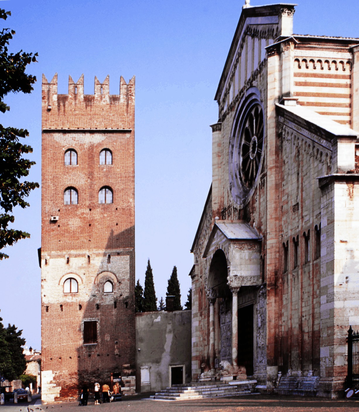 The western front of San Zeno Maggiore and the abbey tower.